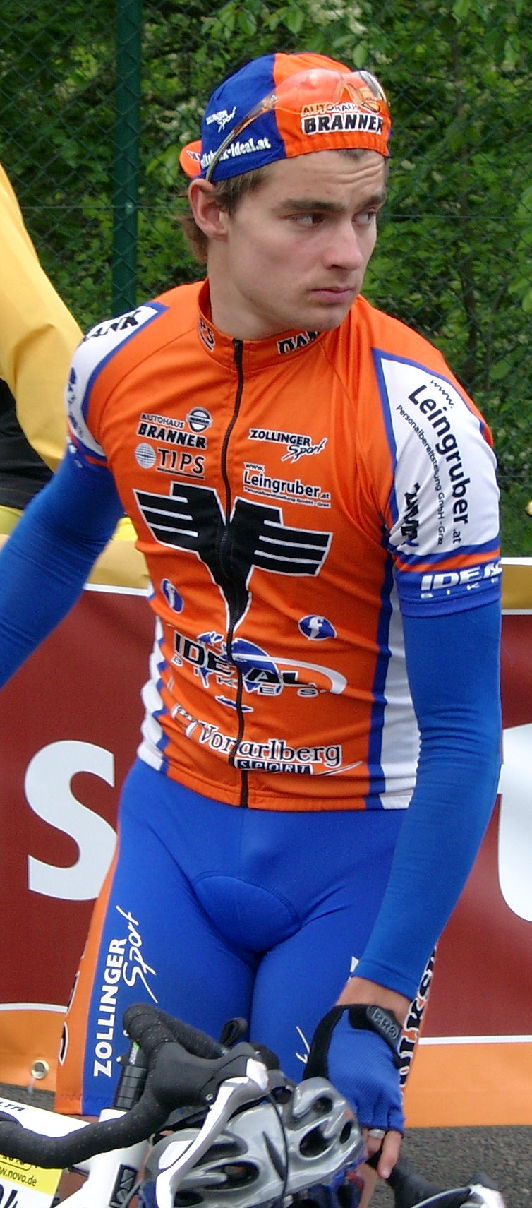 Peter Presslauer